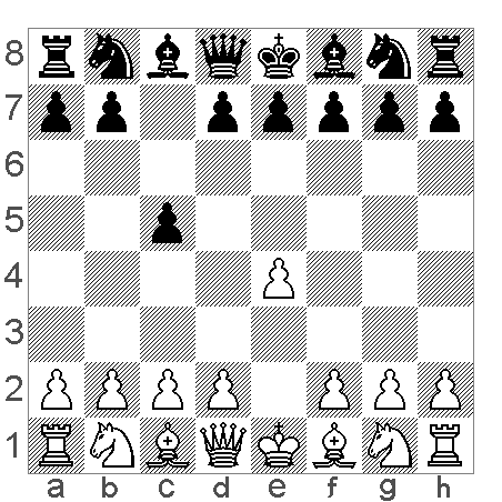 chess diagram Sicilian defence Source: CBlight + my processing